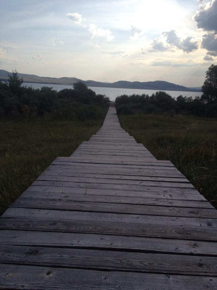 Trail to Itkul Lake in Khakassia Nature Reserve